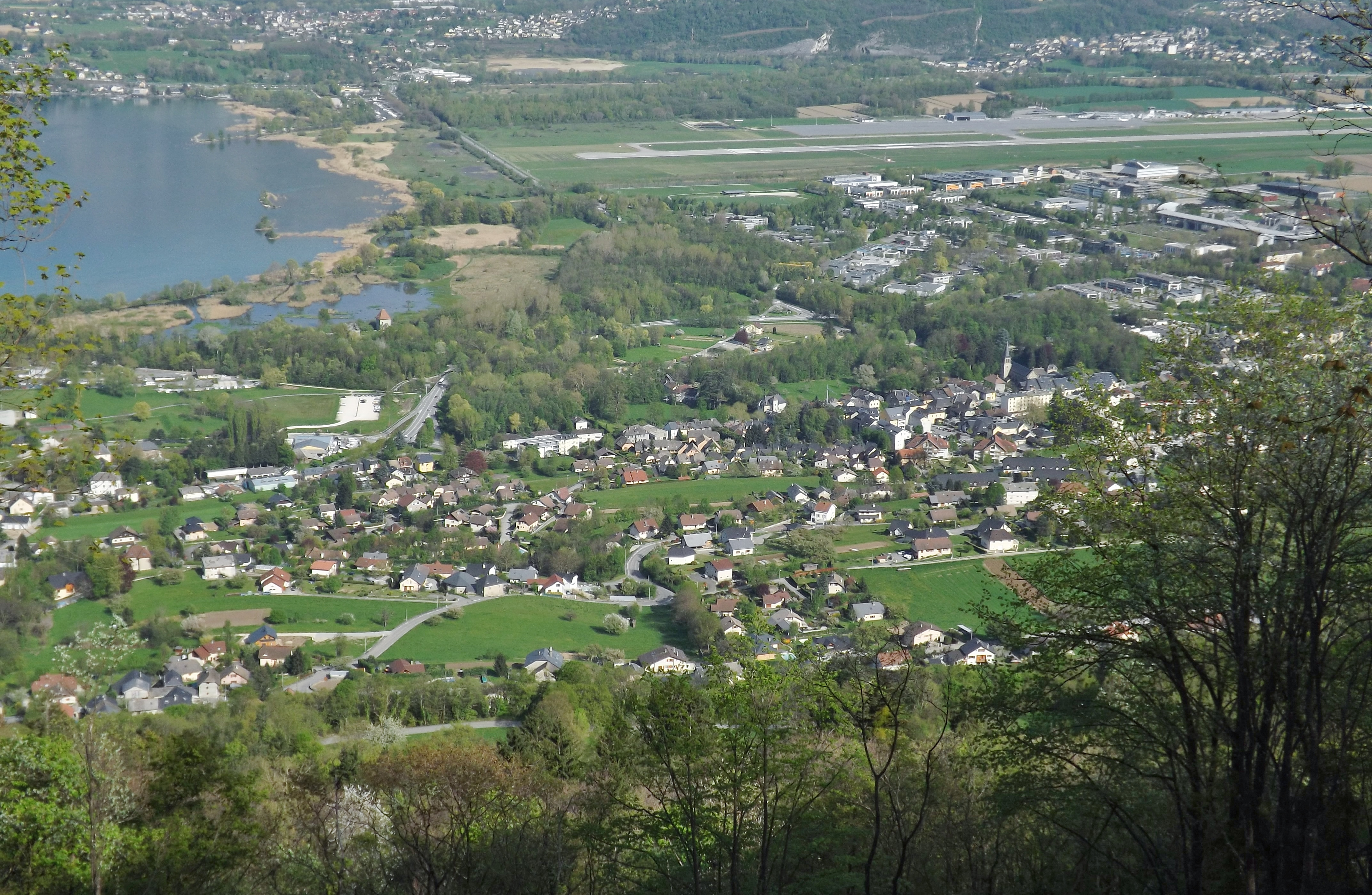 Aerian sight of French commune Le Bourget-du-Lac near Chambéry and Aix-les-Bains in Savoie. Can be seen the lac du Bourget lake, Technolac technopole and the Chambéry - Savoie airport.